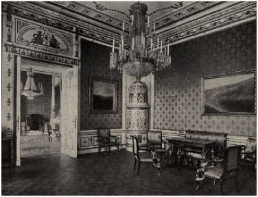 The first writing room in the royal suite in the Royal Castle of Budapest.